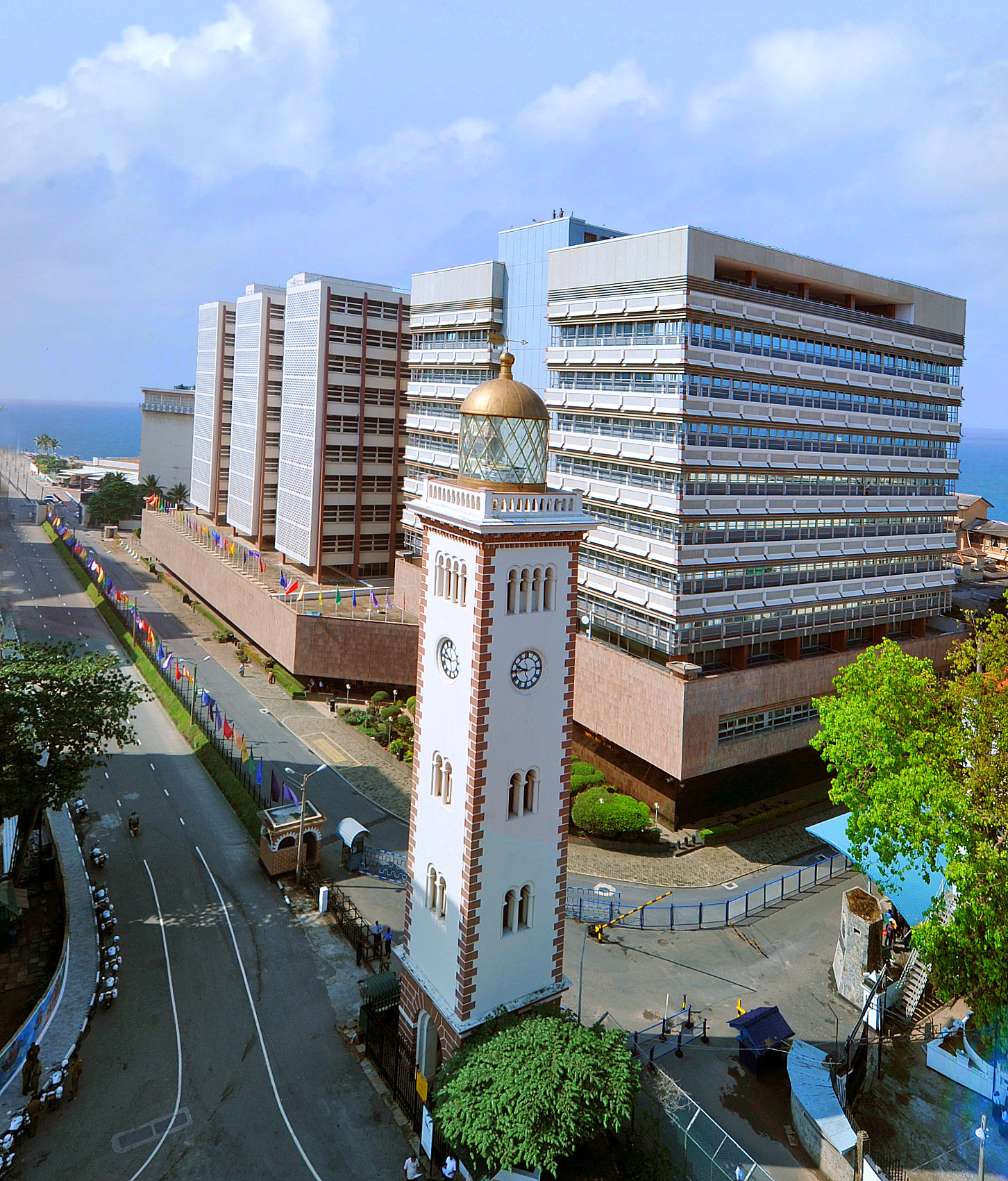 Iconic CBSL Building